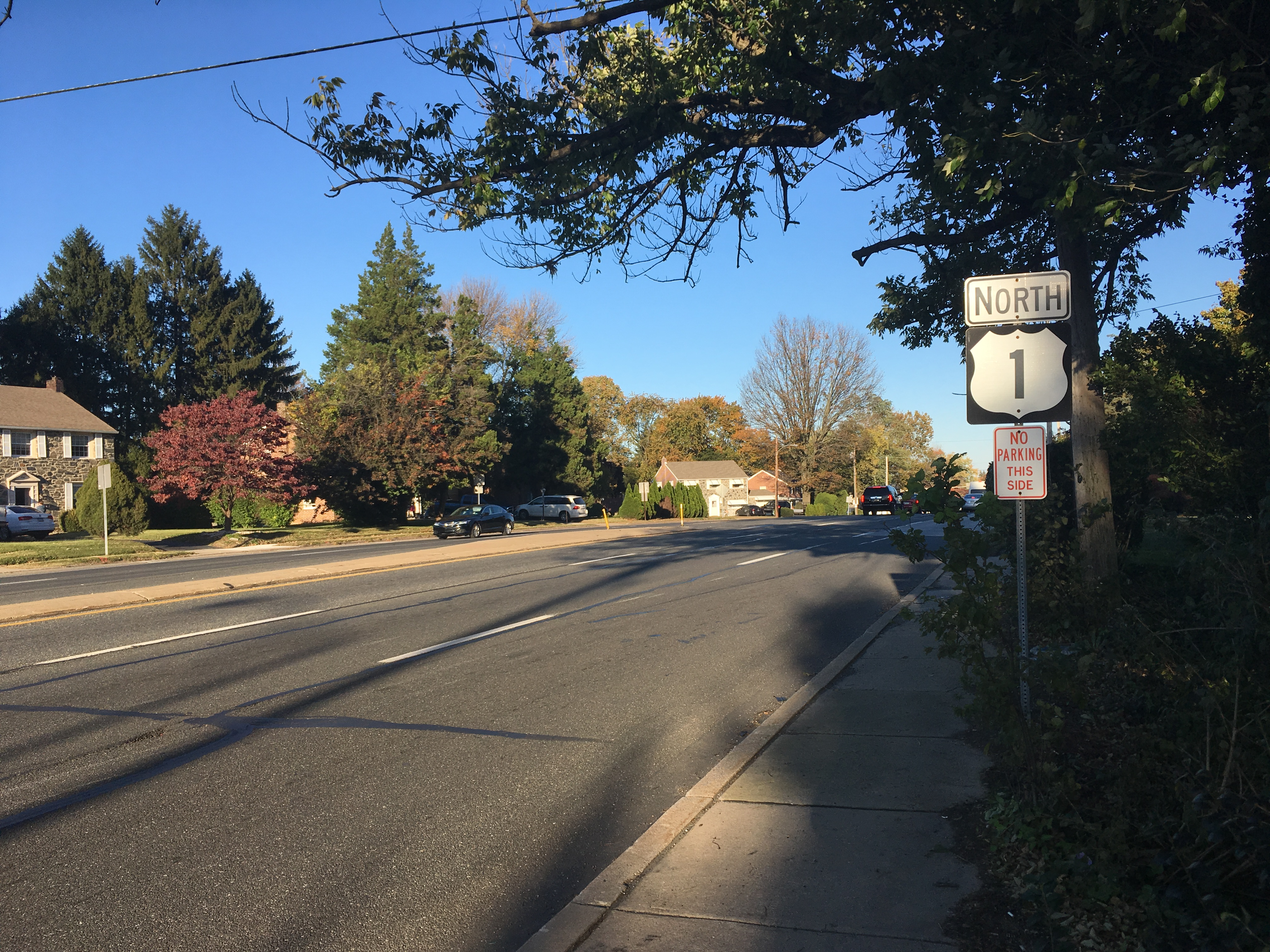 Northbound U.S. Route 1 (State Road) past the interchange with Pennsylvania Route 320 (Sproul Road) in Springfield, Pennsylvania